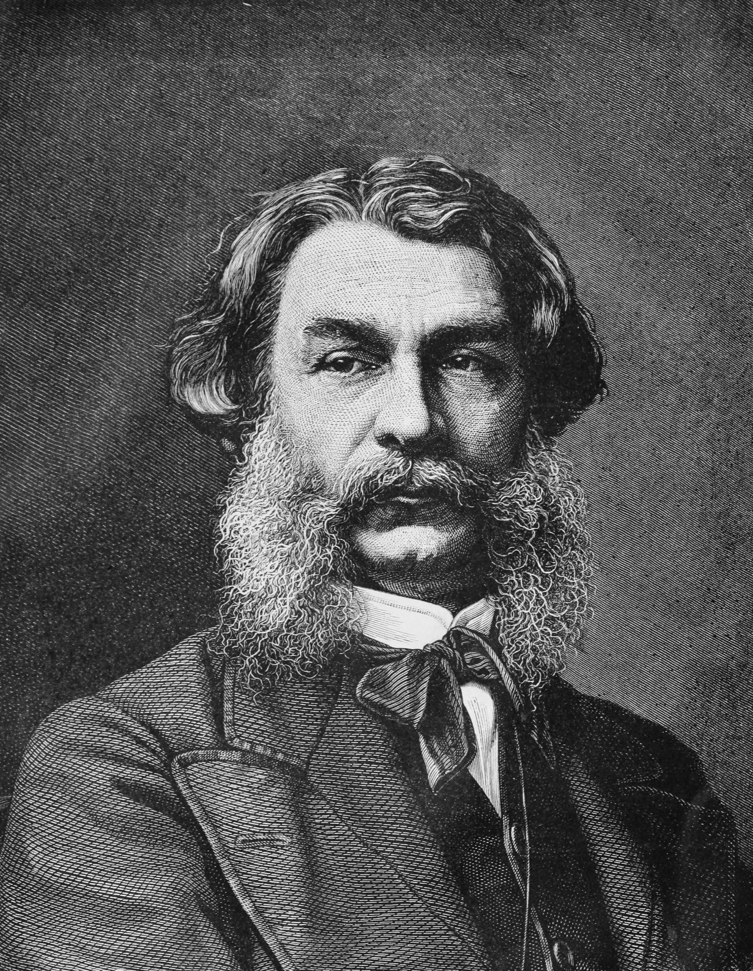 Dmitry Grigorovich